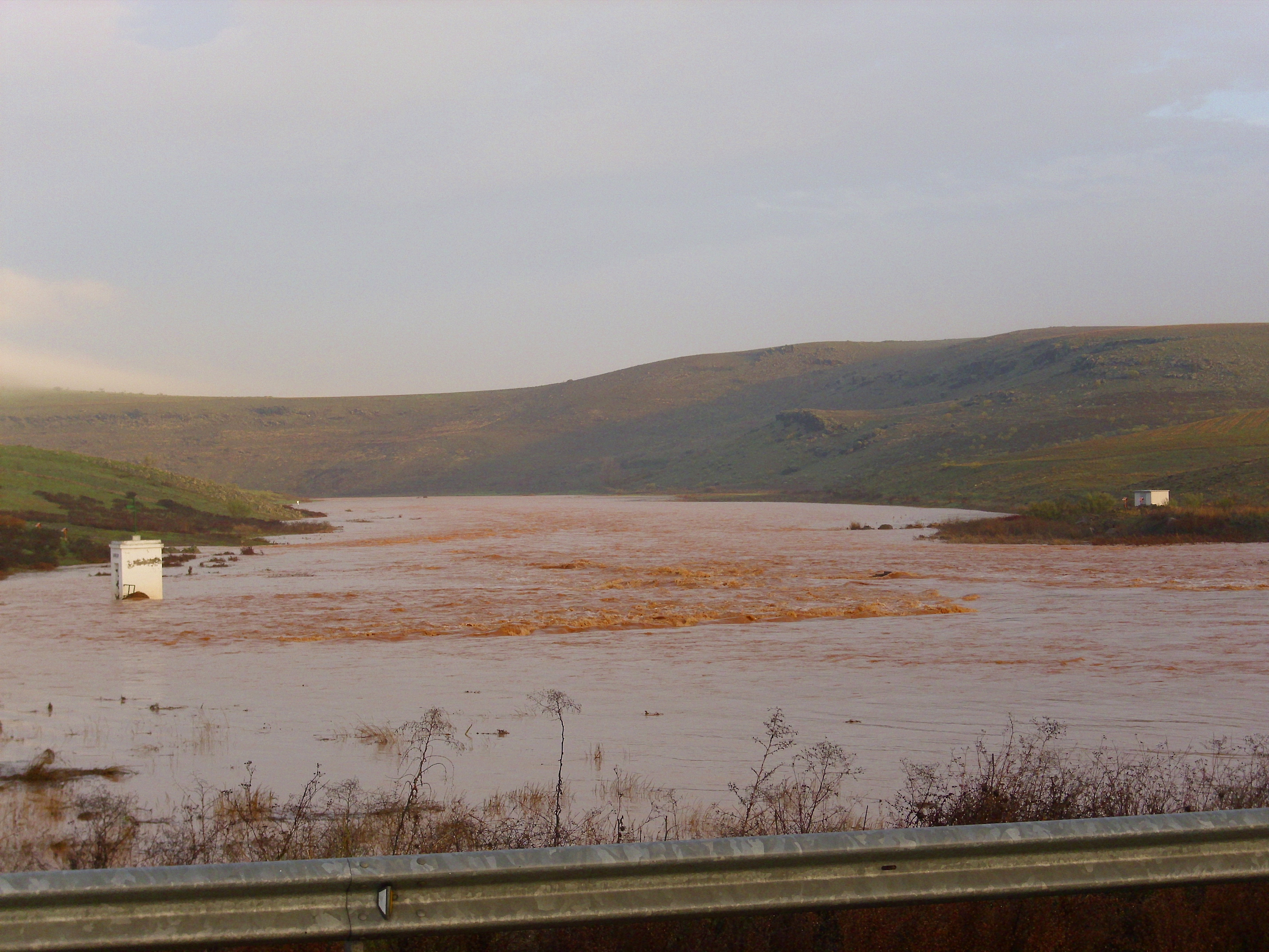 Jabalón river tributary of Guadiana river from Caracuel bridge, Campo de Calatrava, Spain